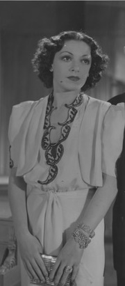 Aída Olivier- actriz y vedette